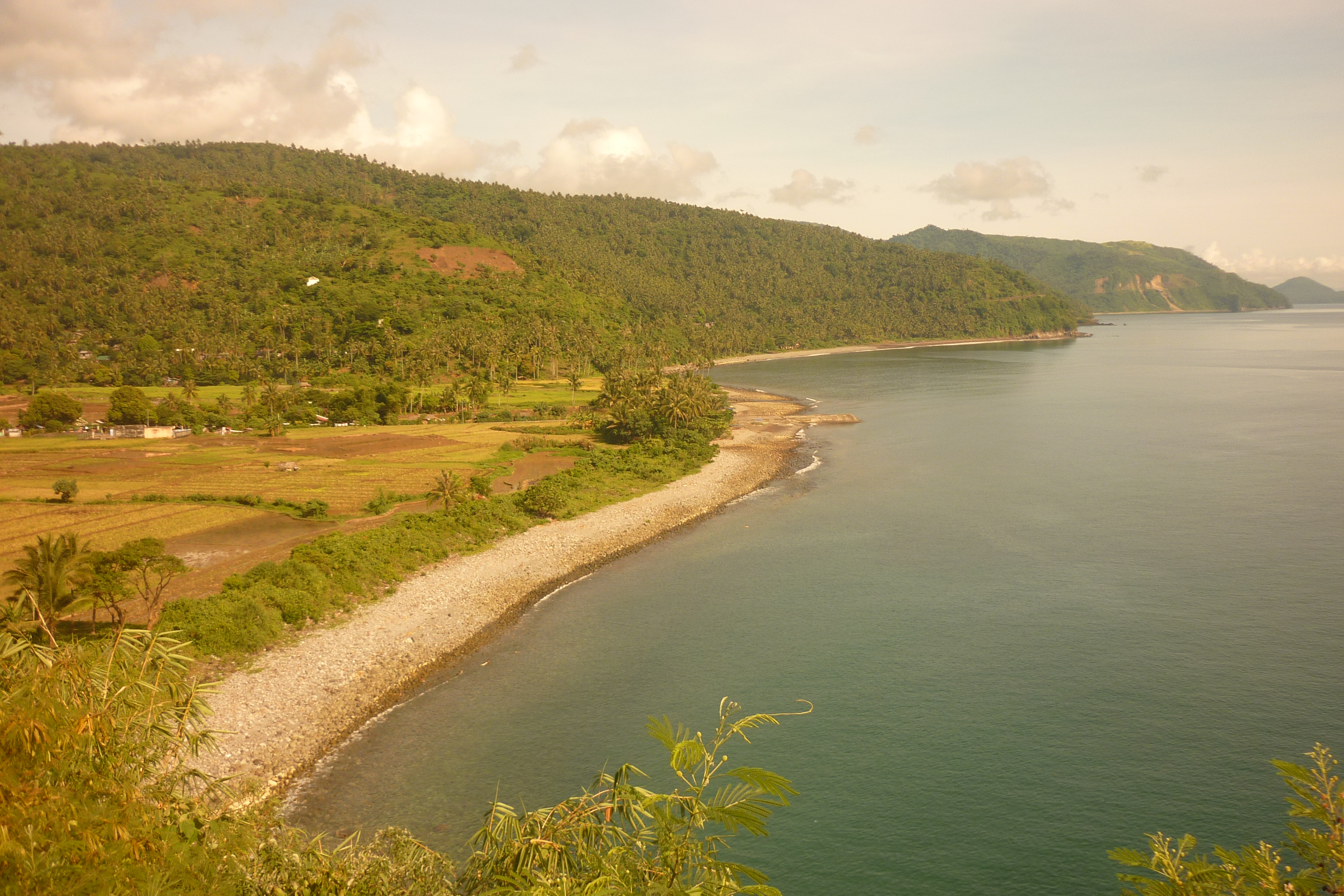 Beaches of Joroan. Photo courtesy of John P. Arcilla